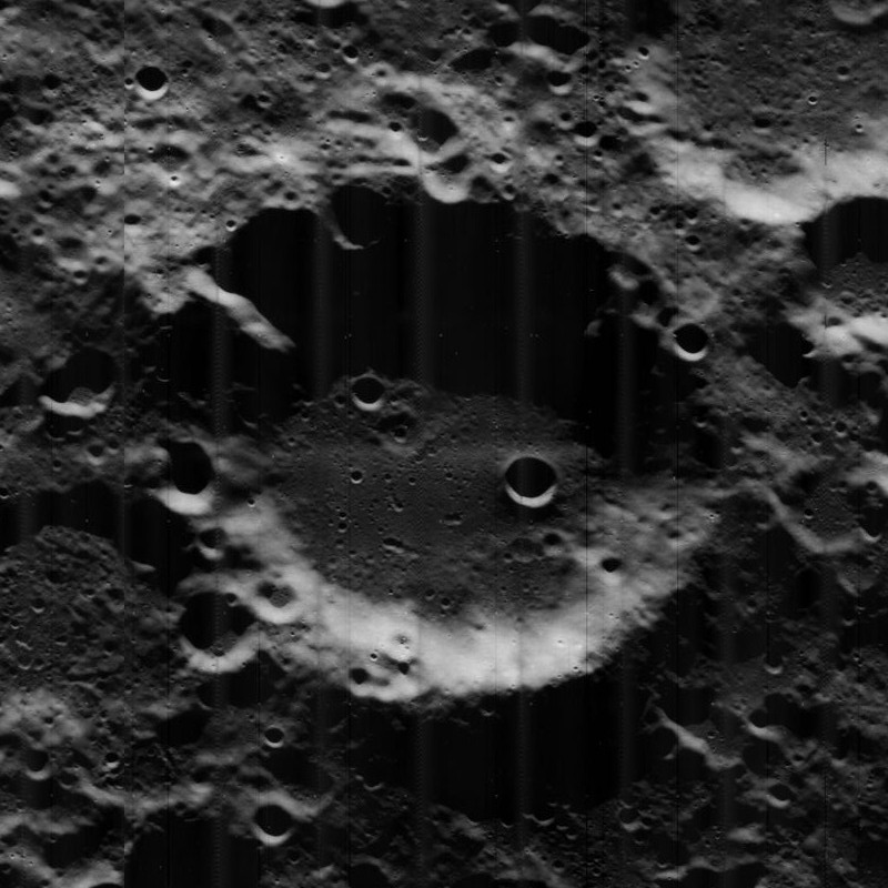 Oblique view of Nöther (Noether), on the far side of the moon, facing west.